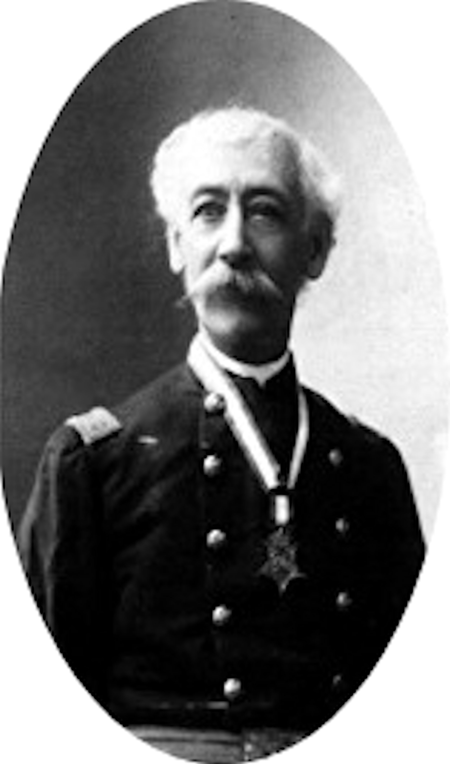 MoH winner George H Maynard